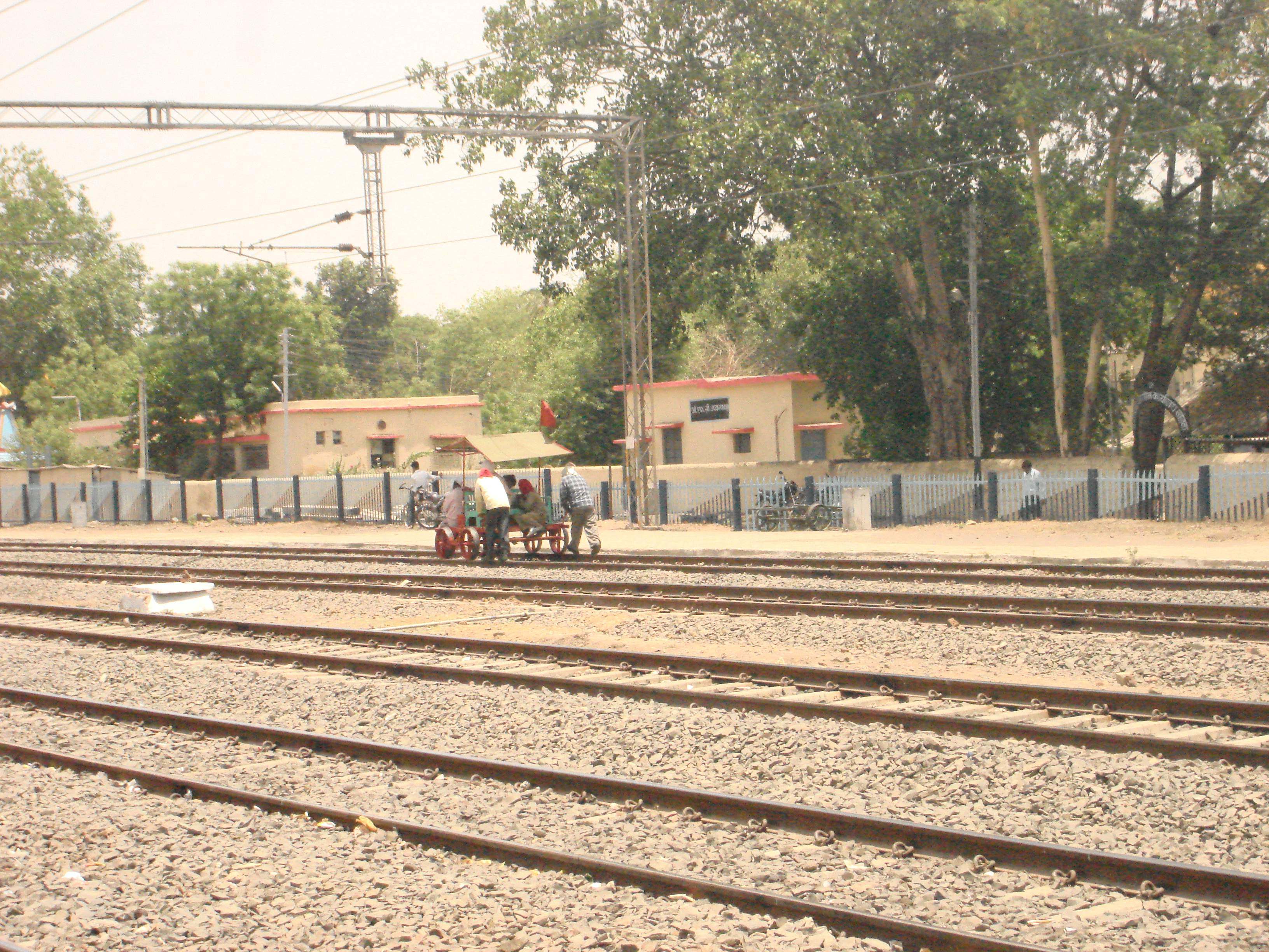 Khandwa Railway Station